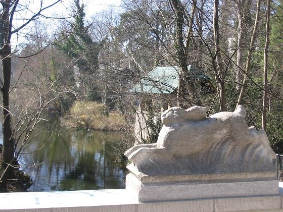 The "rabbit-jump-bridge" at the Diana lake in Berlin